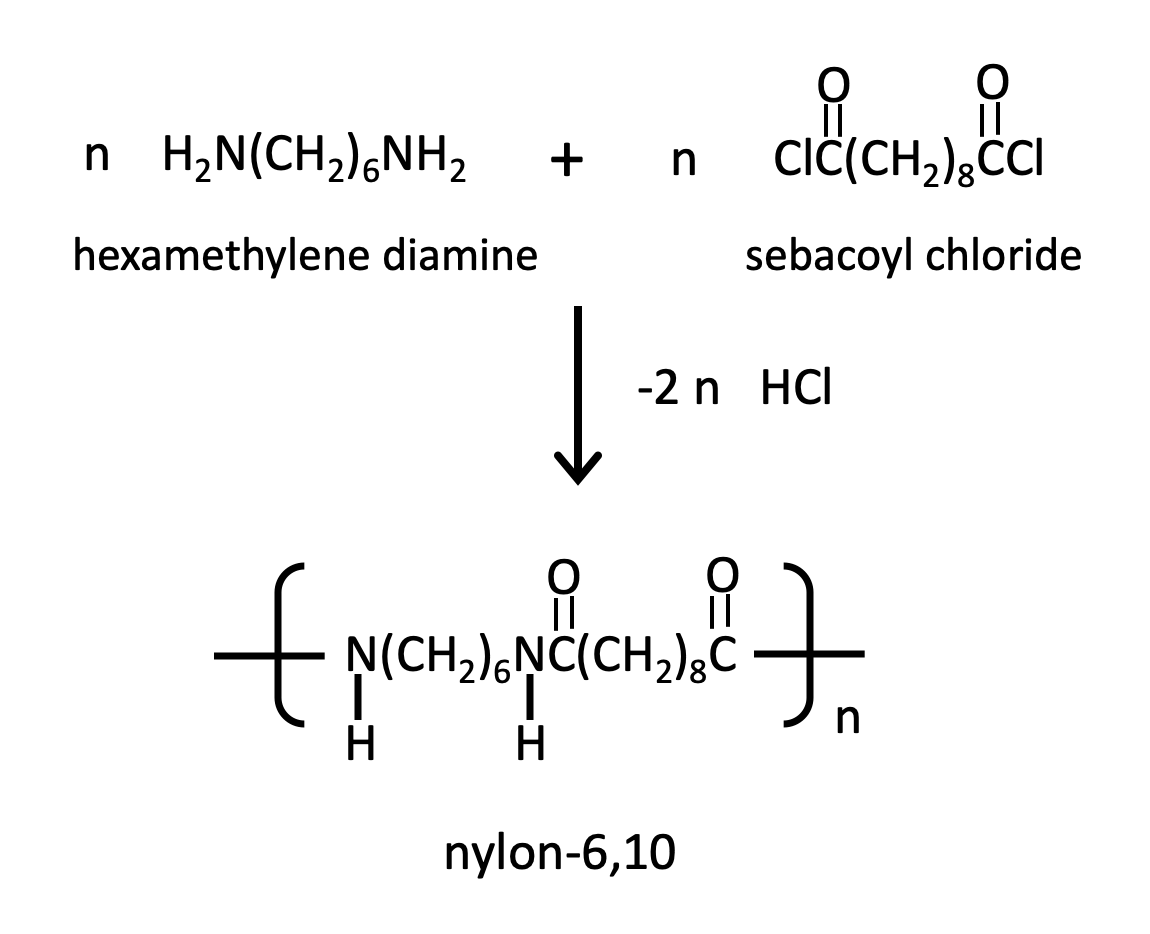 This is the preparative route that is used, for example, in interfacial polymerization.